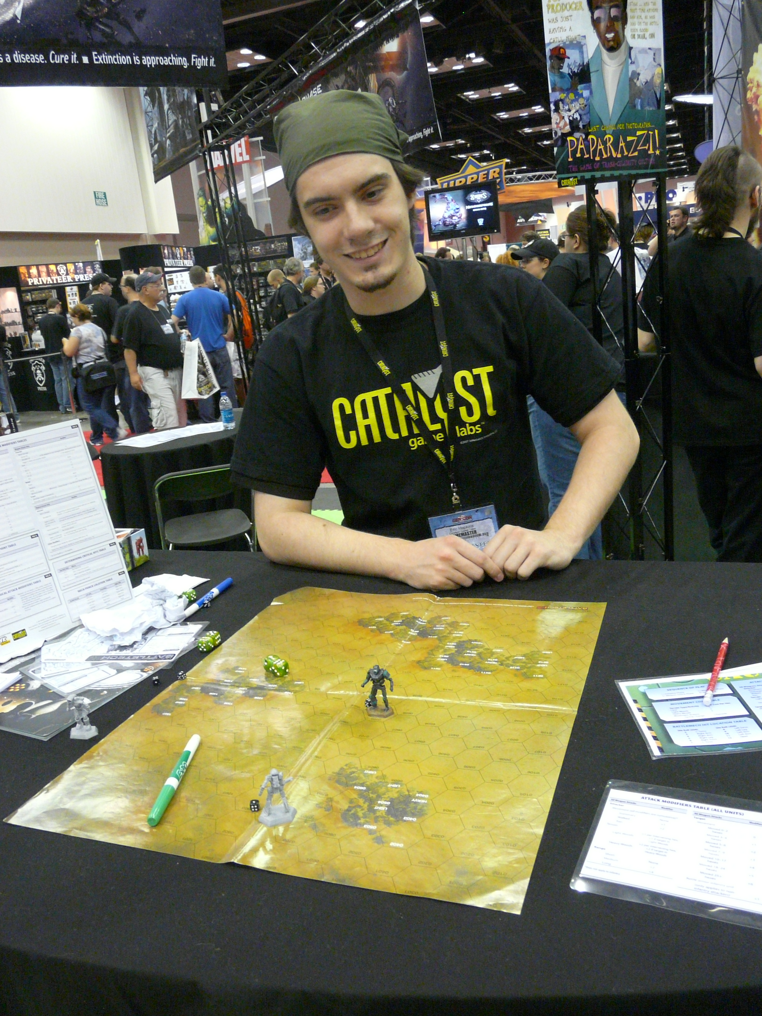 Picture of Gen Con Indy 2008 in Indianapolis, Indiana, USA. Battletech